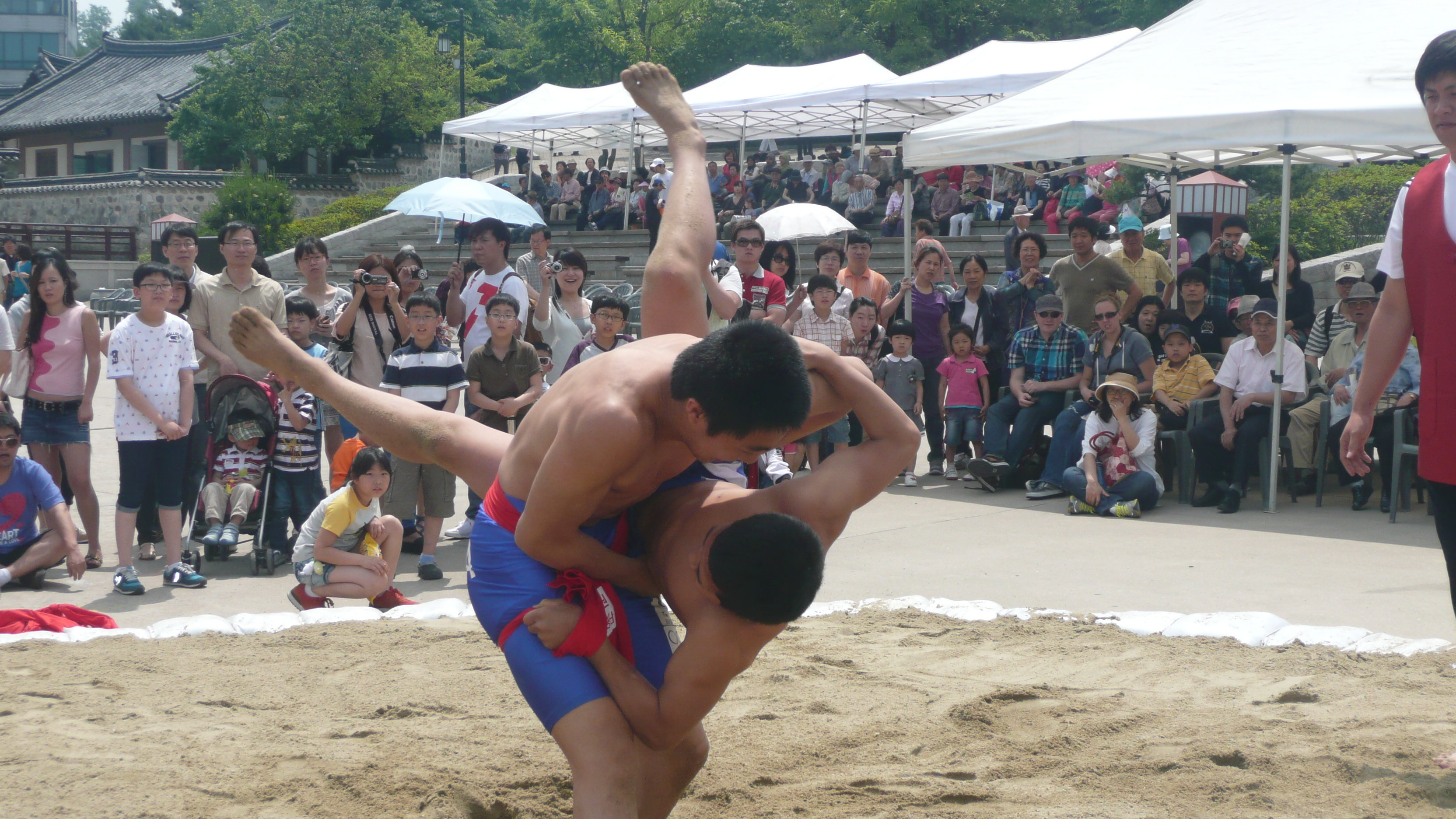 Ssireum during a festival in Seoul